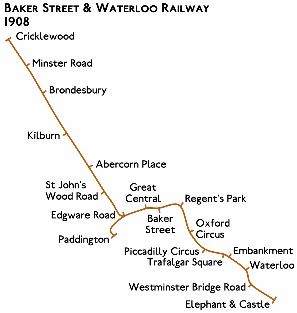 Geographic Map of the Baker Street & Waterloo Railway, 1908.